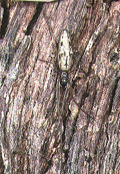 female Tetragnatha makiharai from Okinawa.